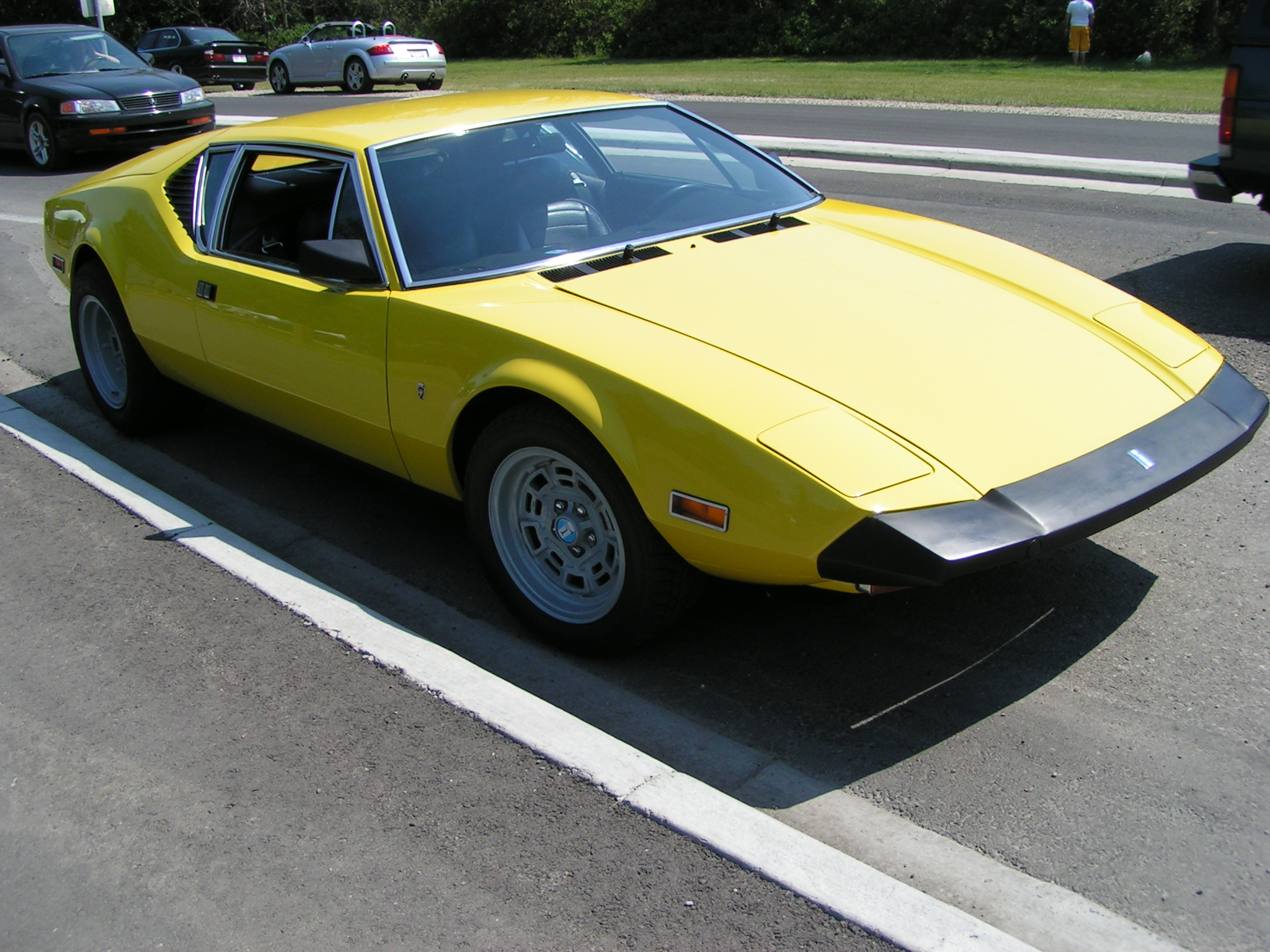 Some of the most interesting cars end up in the parking area.